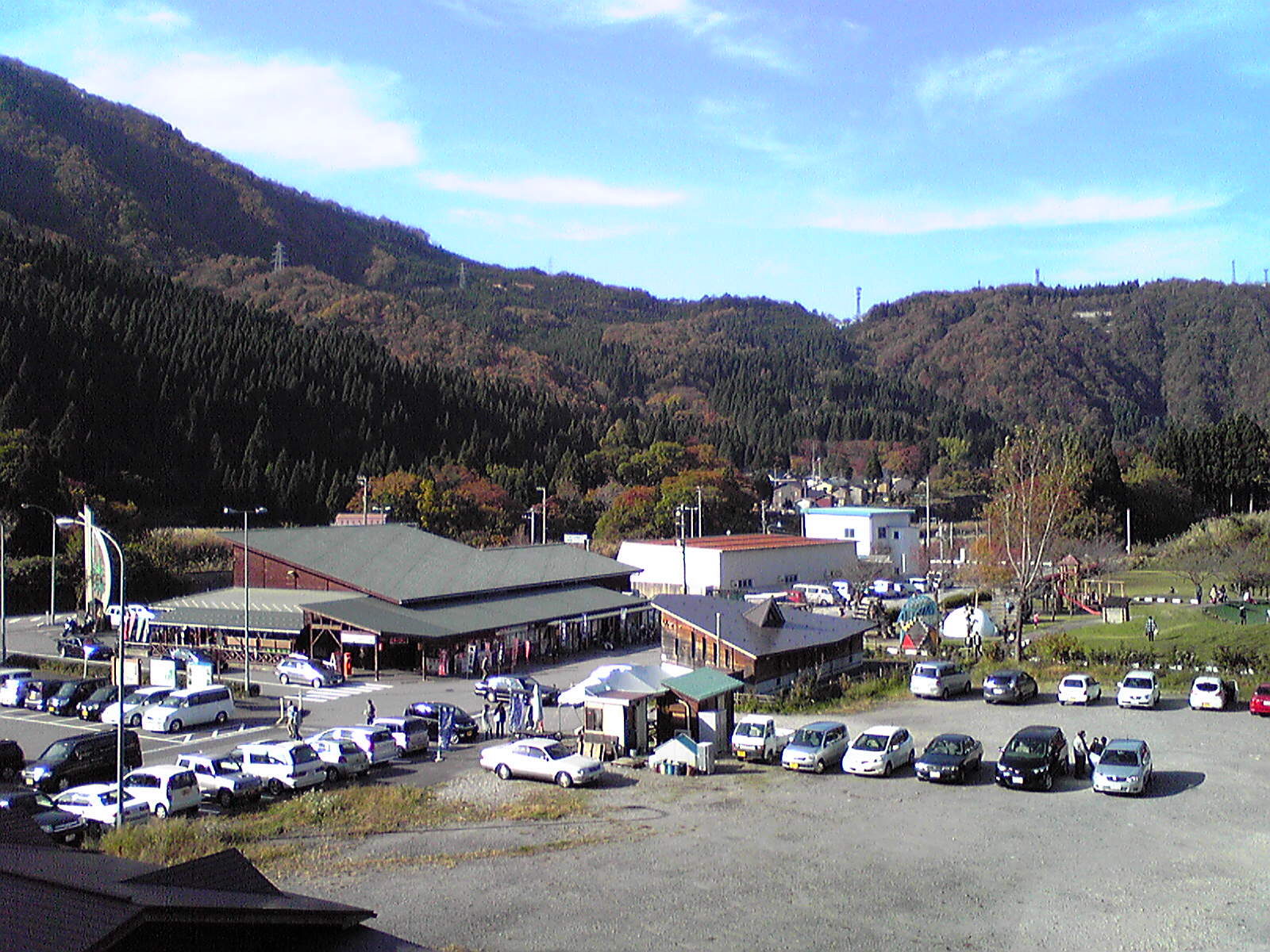 Distant view, Hosoiri, Roadside Station, Toyama, Japan.